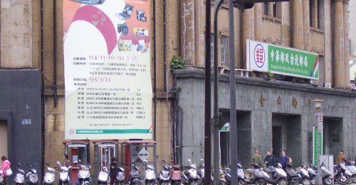 Taipei Post Office.